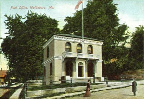 Custom House and Post Office, Waldoboro, Maine before an addition to the rear was added. Later this was the Waldoboro Public Library.